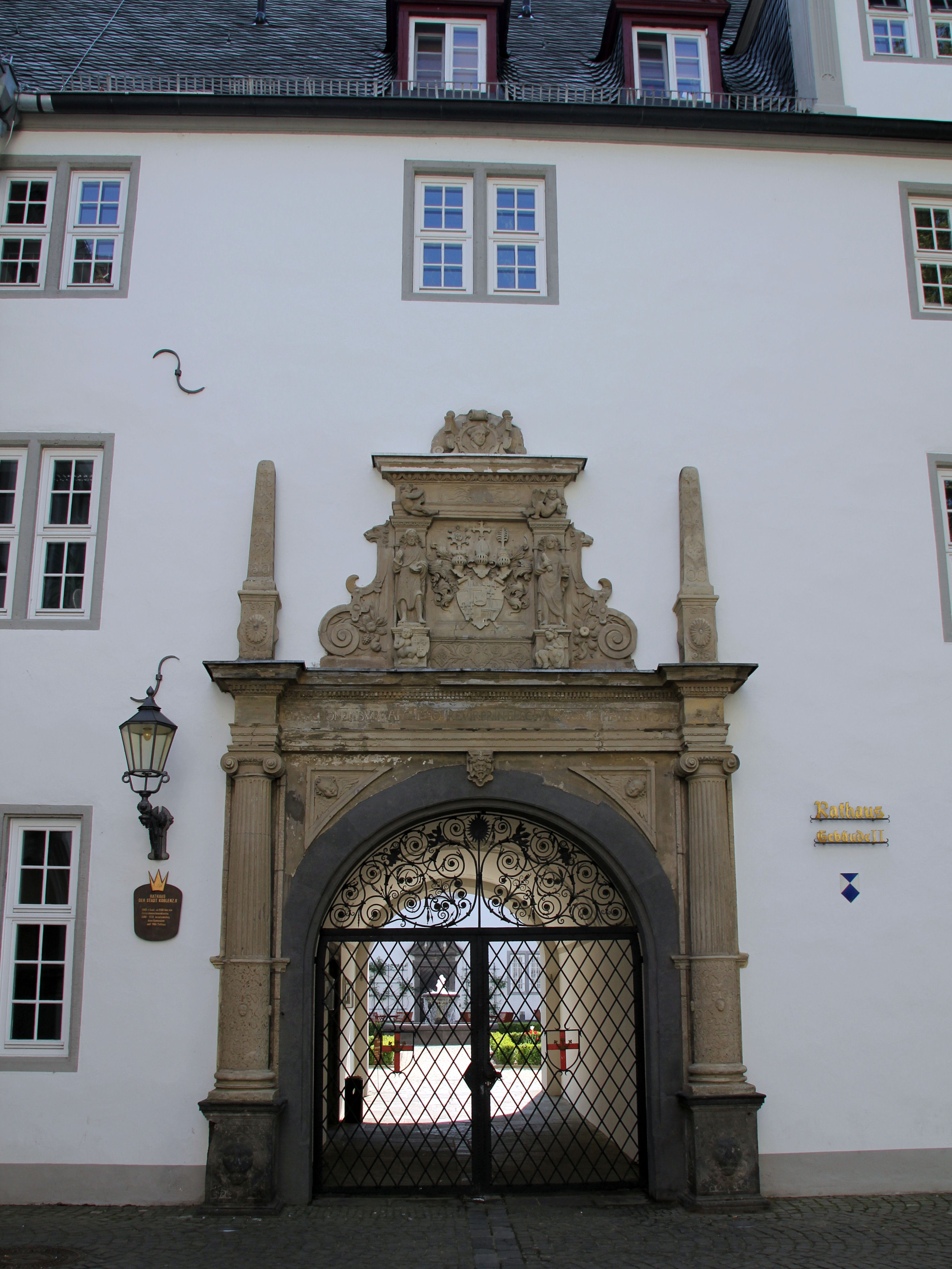 City hall of Koblenz